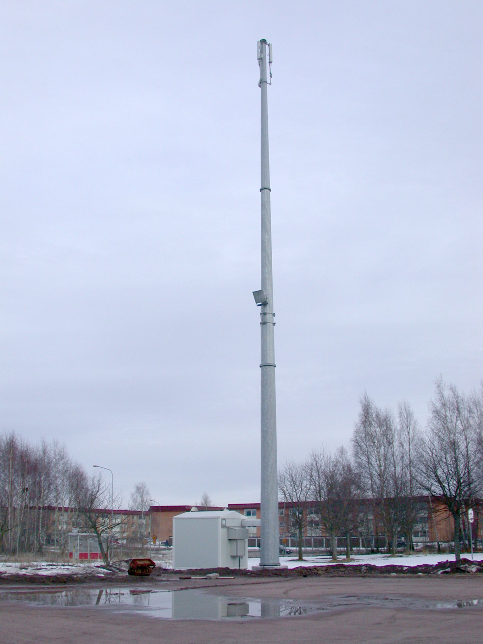 A monopole (aerial carrier) for 3G/UMTS mobile phone equipment at the corner of Mariebergsgatan and Agneshögsgatan in Motala in Sweden. The site belongs to 3GIS. Photo taken by Riggwelter March 30 2006. A flood light is mounted halfway up.